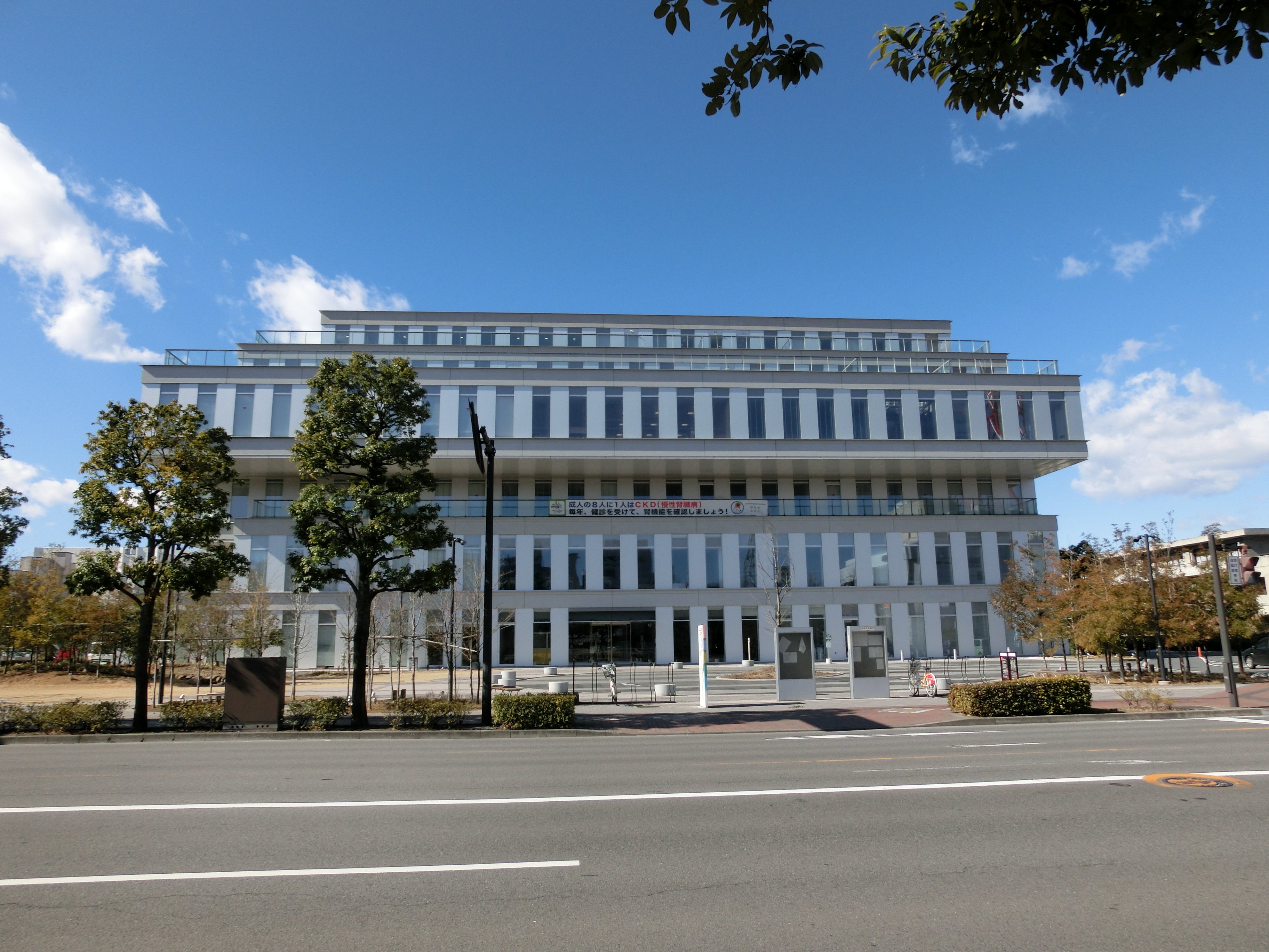 Takasaki City General Health Center and Central Library